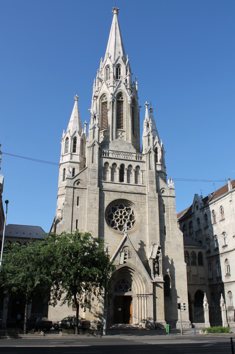 Perpetual Adoration Church (Örökimádás templom). - Üllői út, IX., Budapest